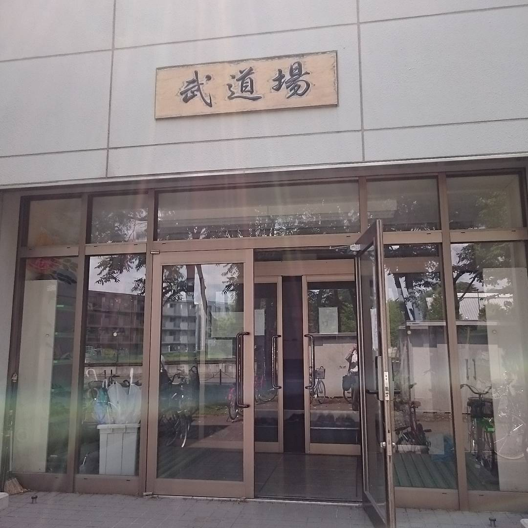 Training rooms for martial arts.